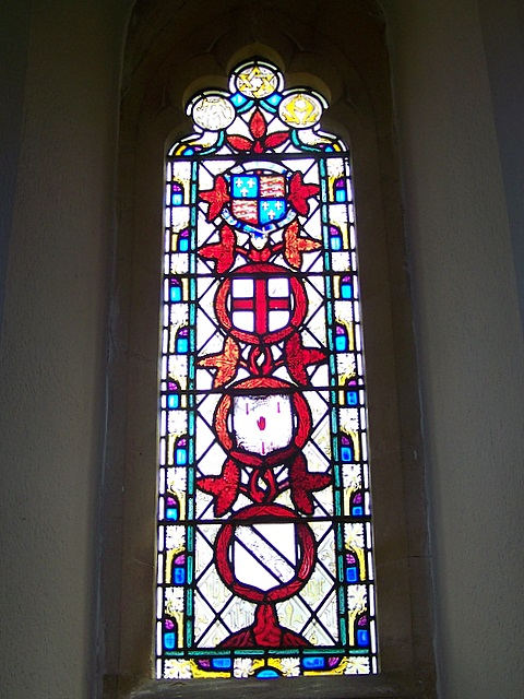 Stained glass window, St Michael's Church, Dunchideock, Devon, Early English lancet window in the south wall of the Chancel in memory of Bourchier Wrey Savile (1817–1888) a Church of England clergyman and theological writer, Rector of Dunchideock 1872-88. Shields top to bottom: royal arms of England Henry IV - Elizabeth I; Cross of St George; arms of Wrey Baronets, with Red Hand of Ulster; arms of Savile